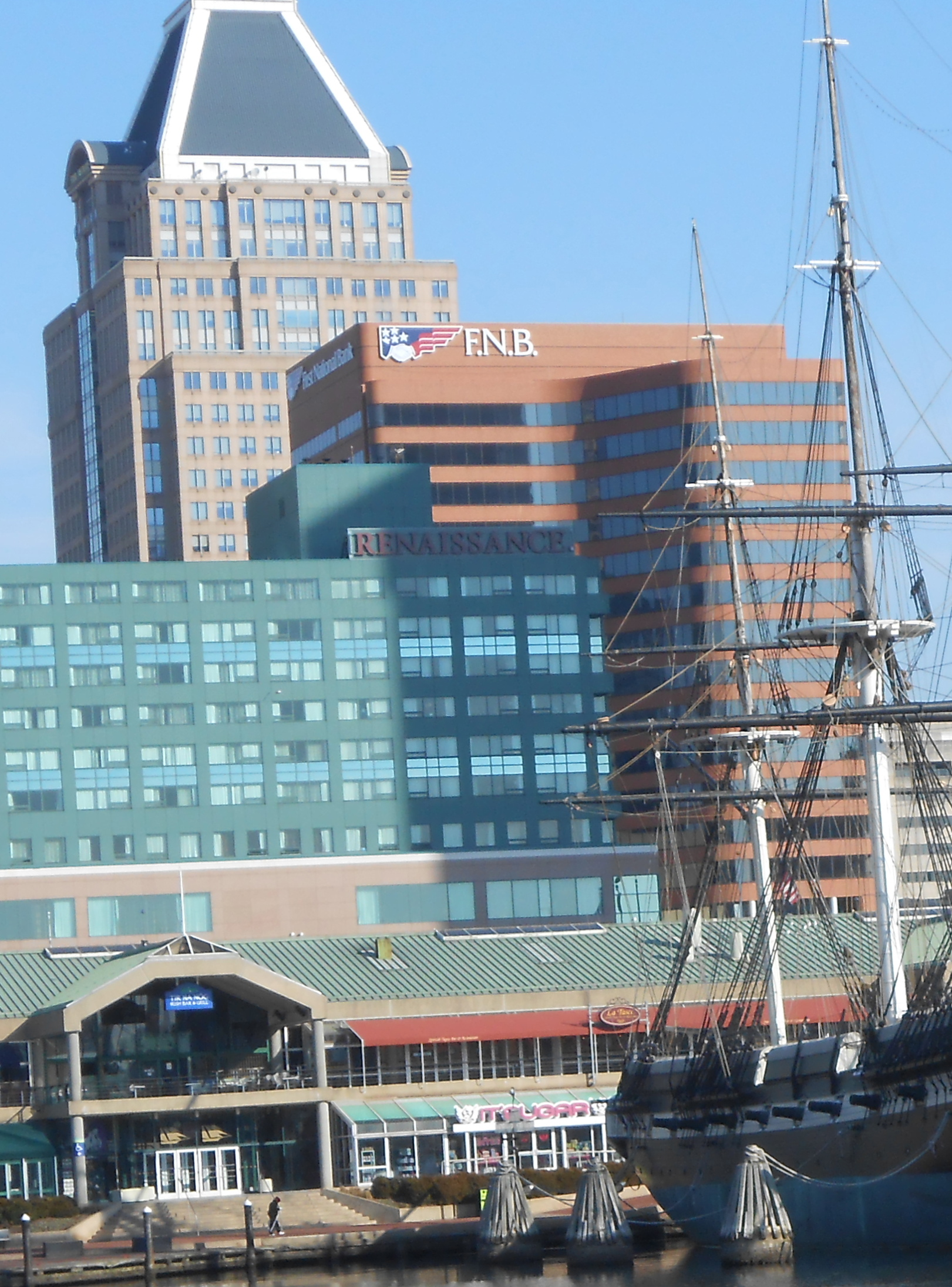 Formerly the Merchants Natl. Bank Bldg. and formerly the Baltimore Federal S&L Bldg. , in 2014 the 17 story red brick building between Lombard and Water Streets is flying the logo of First National Bank of Hermitage, PA. Directly behind it is Commerce Place, the 31 story building that housed investment banker Alex Brown until 2000. in front is the USS Constellation.